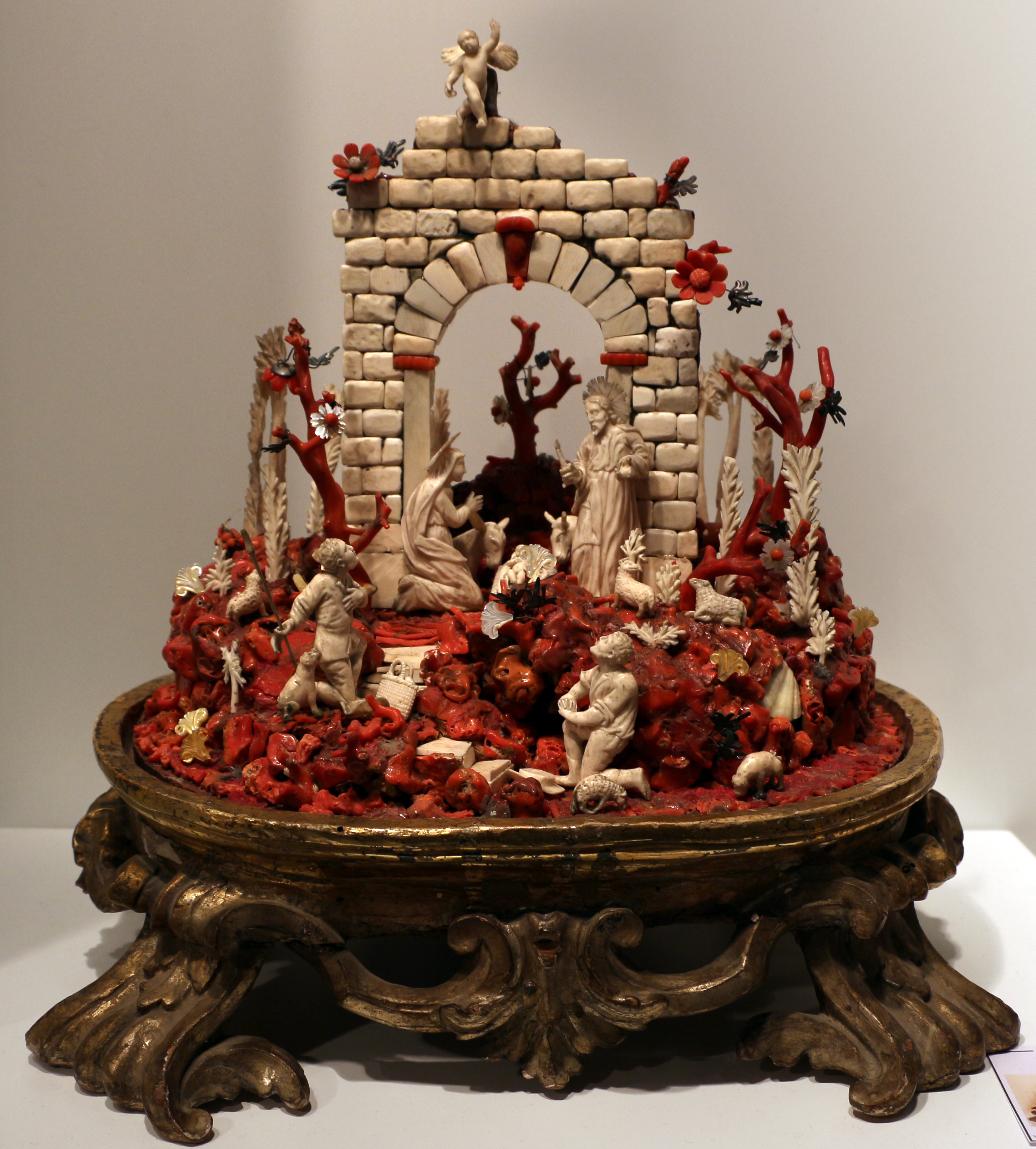 Courtesy of Palazzo Torlo Antiquariato